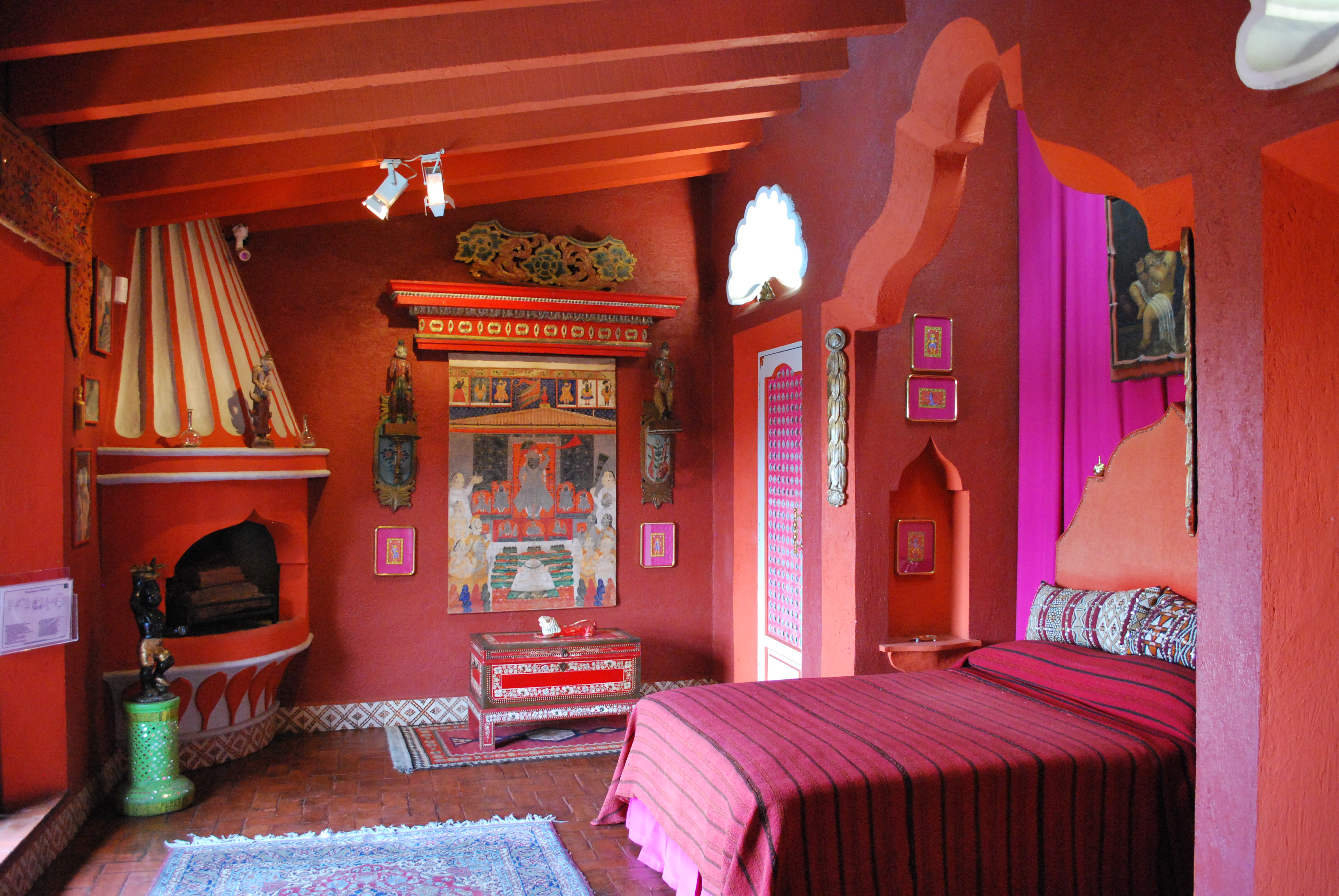 Oriental Bedroom of the Robert Brady Museum / Casa Torre in Cuernavaca, Morelos, Mexico